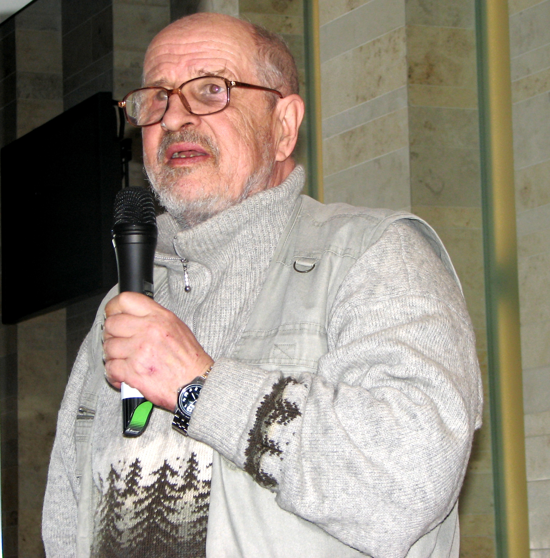 Teet Kallas performing in Baltic Book Fair 2010